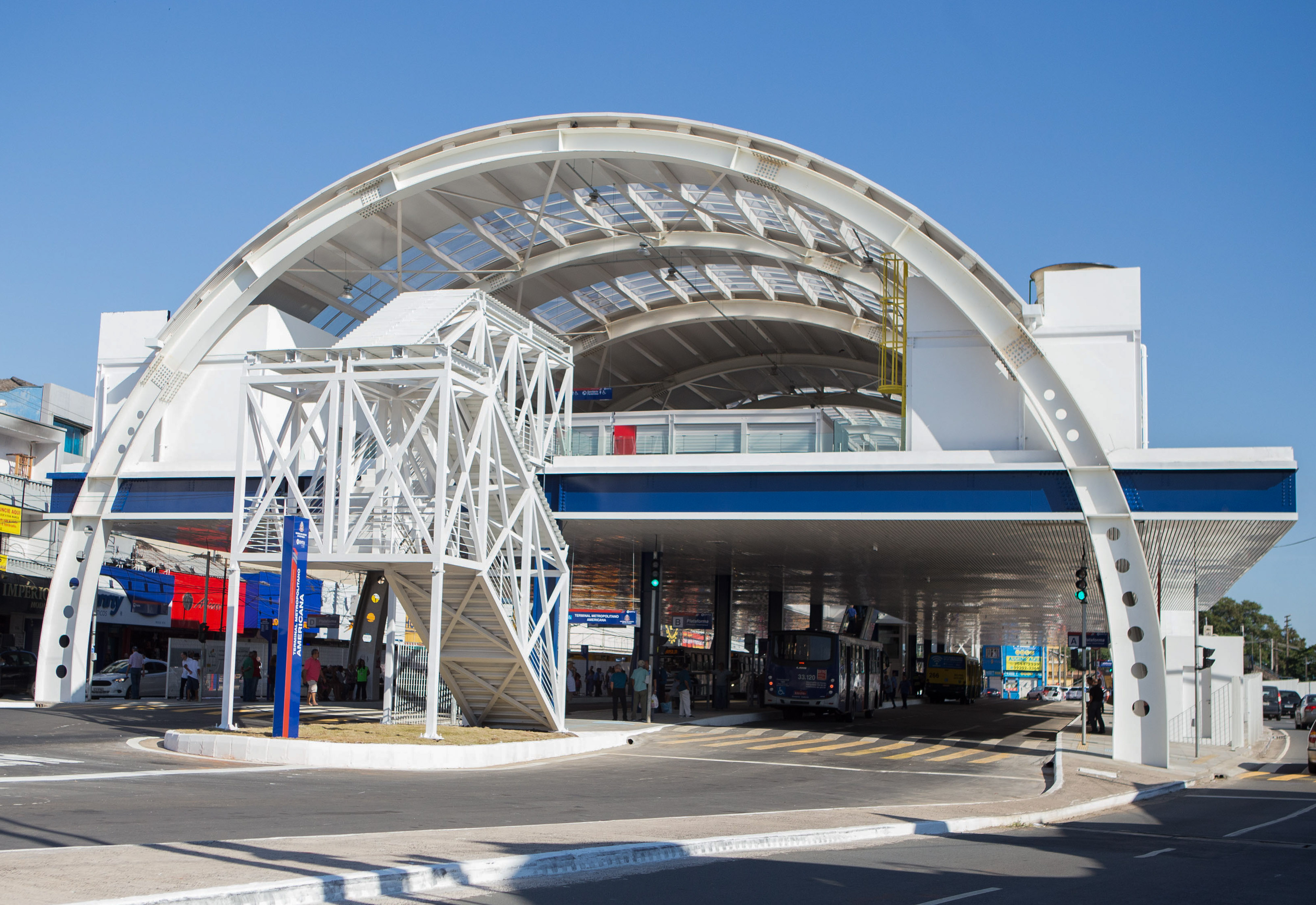 Americana 16/12/2017- O governador de São Paulo, Geraldo Alckmin participou hoje da entrega do Terminal metropolitano de Americana . Foto: Mastrangelo Reino/A2img